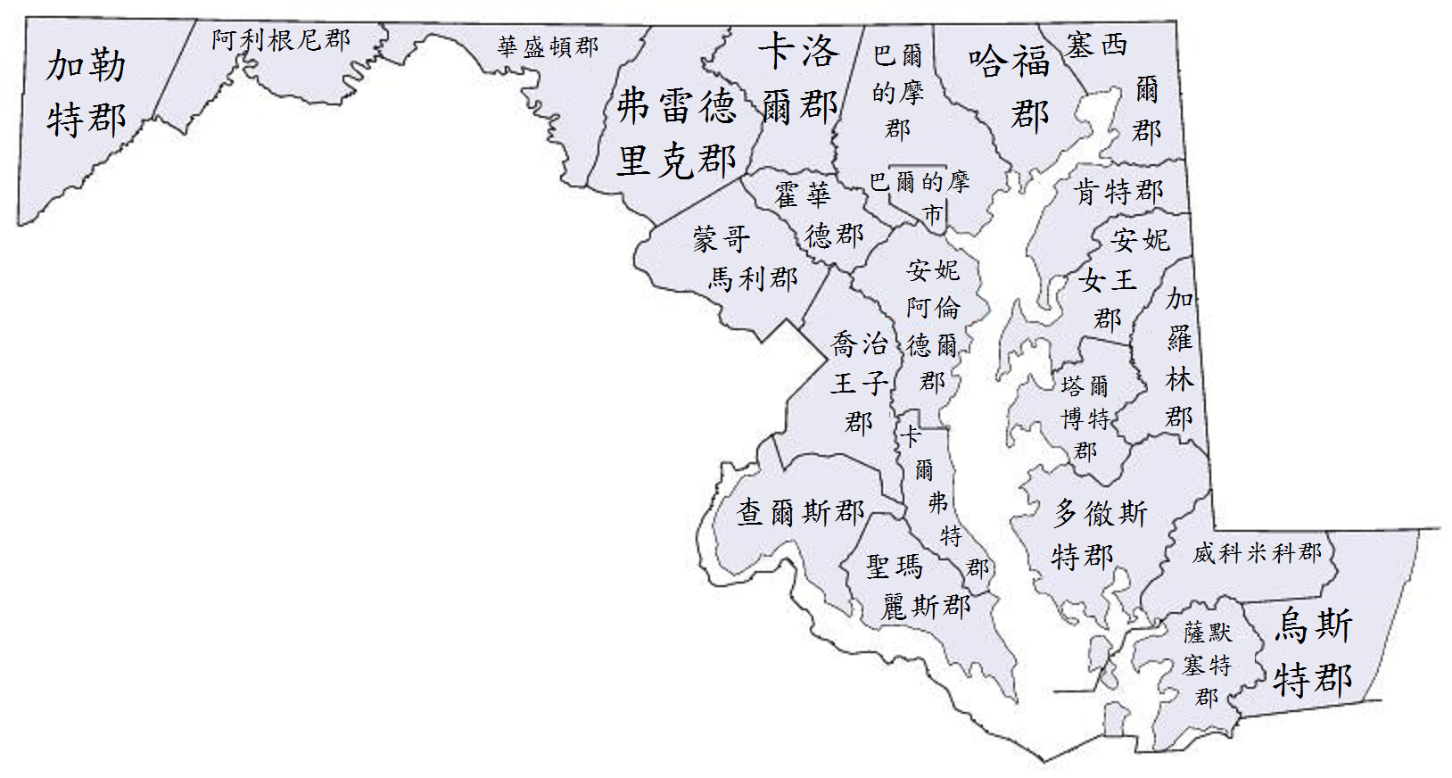 retouched picture of File:Map_of_maryland_counties.jpg